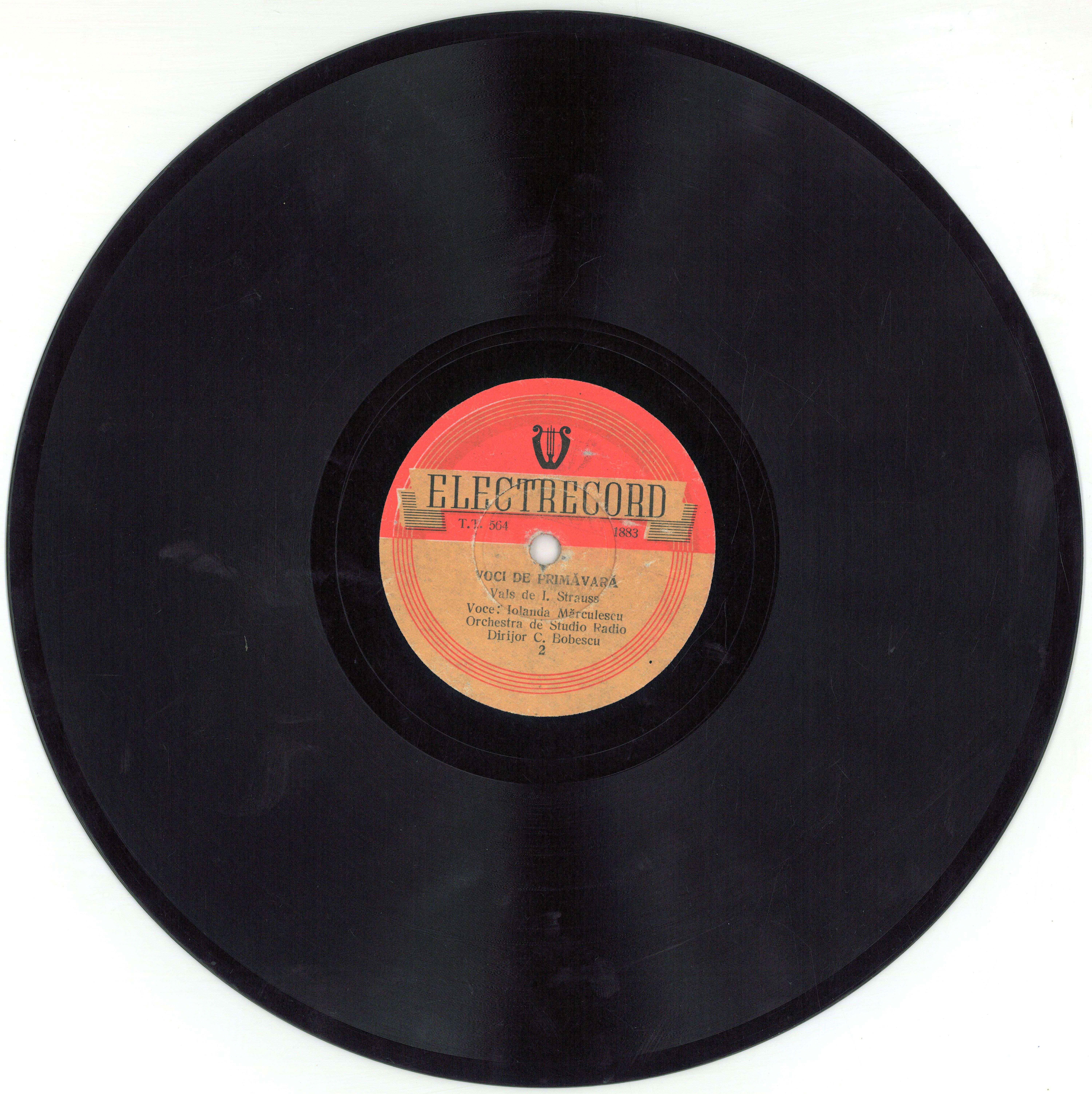 Electrecord record (1952)